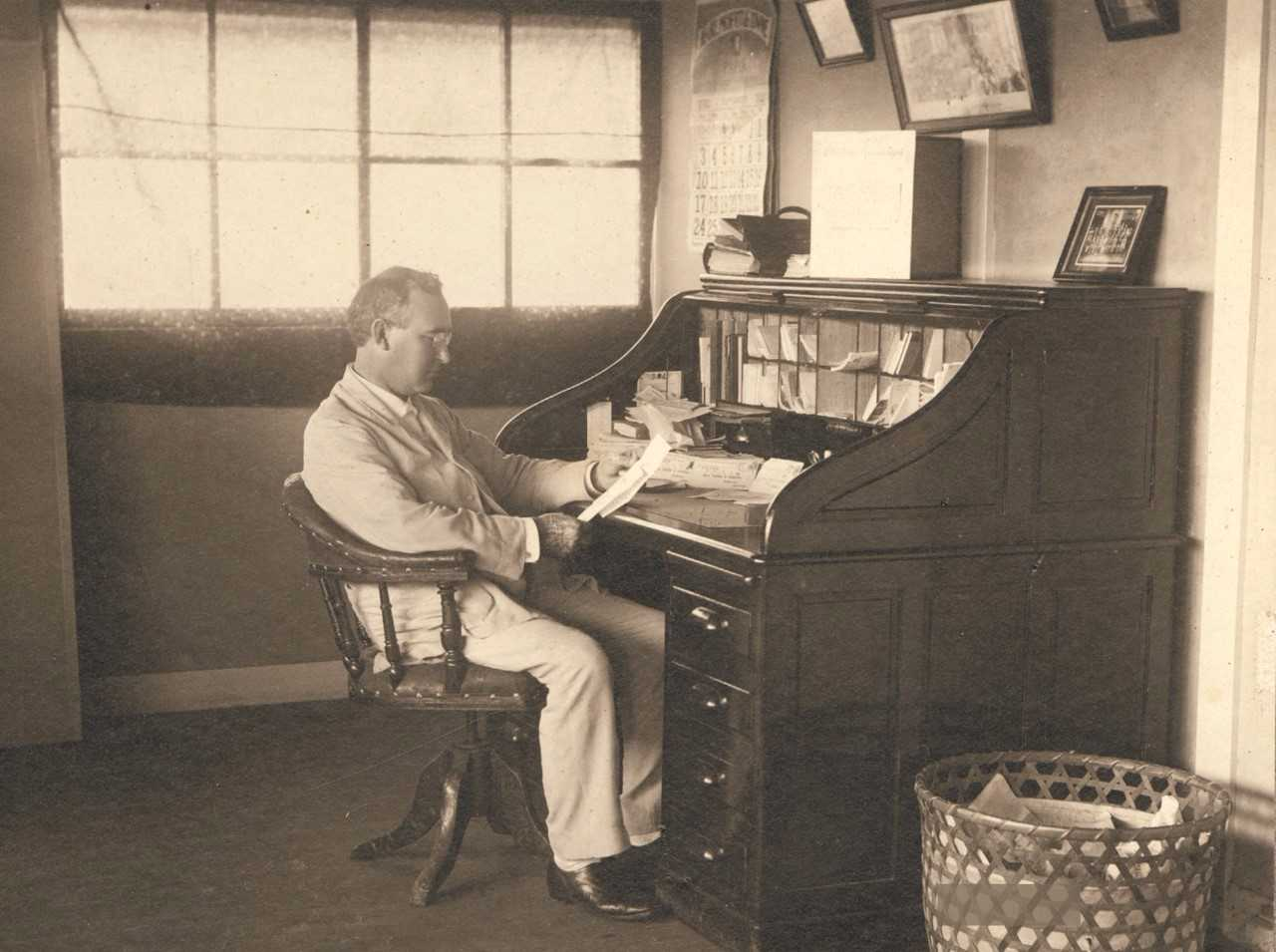 Charles Cowman, co-founder of OMS, sits at his desk.